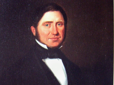 Portrait of Friedrich Wilhelm Wencke, owner of a shipyard in Bremerhaven, Germany